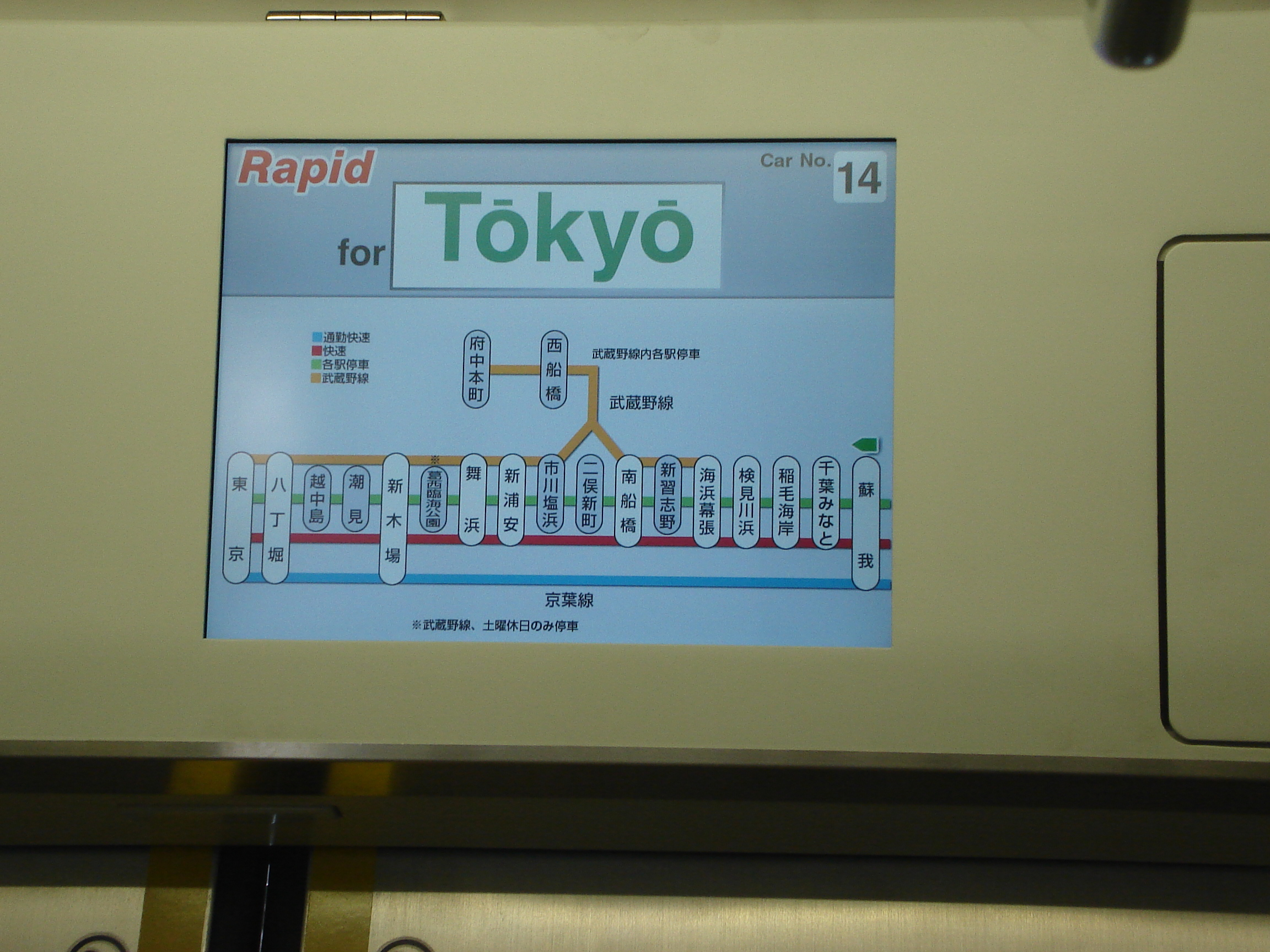 The Visual Information System (Train Information) of JR East E331